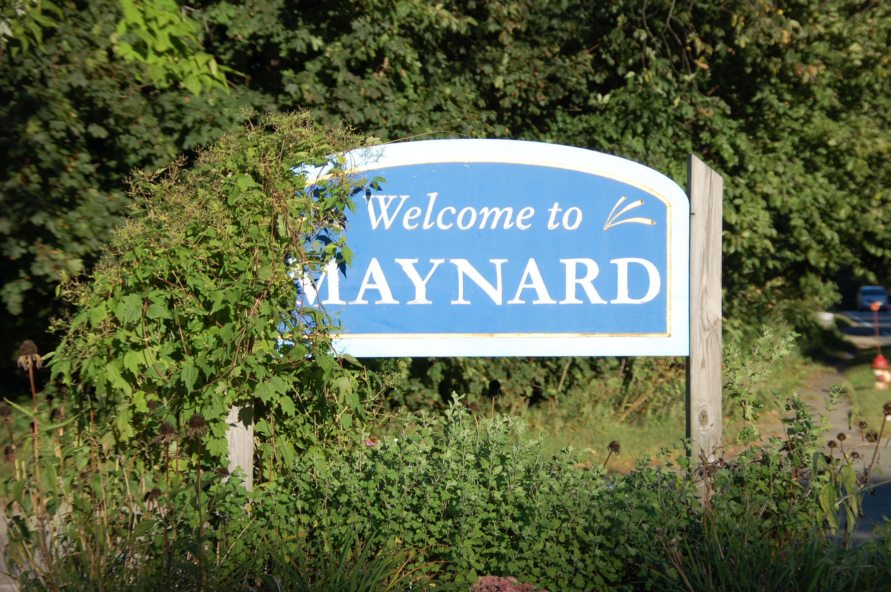 The Welcome to Maynard (Massachusetts) sign along MA-Route 117 near the Maynard-Stow town line, next to Erikson's Ice Cream and dairy.